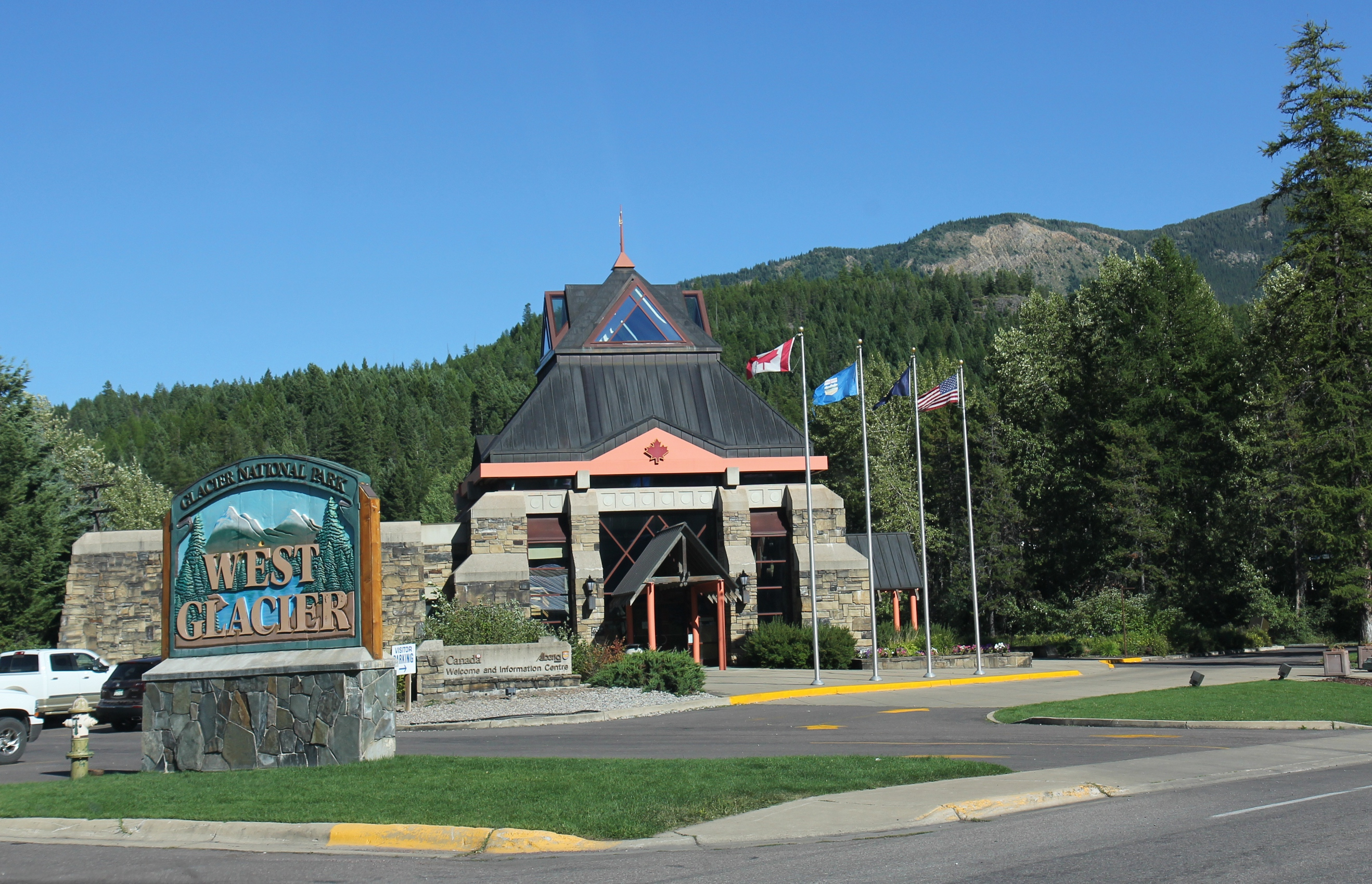 Travel Alberta Visitors Centre in West Glacier, Montana (Glacier National Park). It encourages cross-border tourism from the United States into Canada.